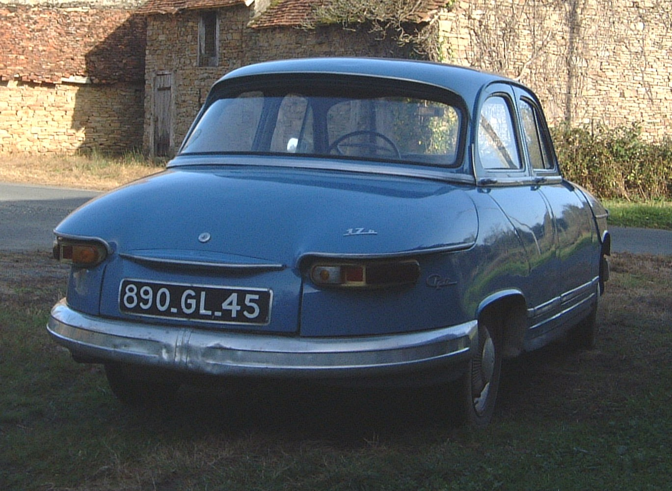 My father's car